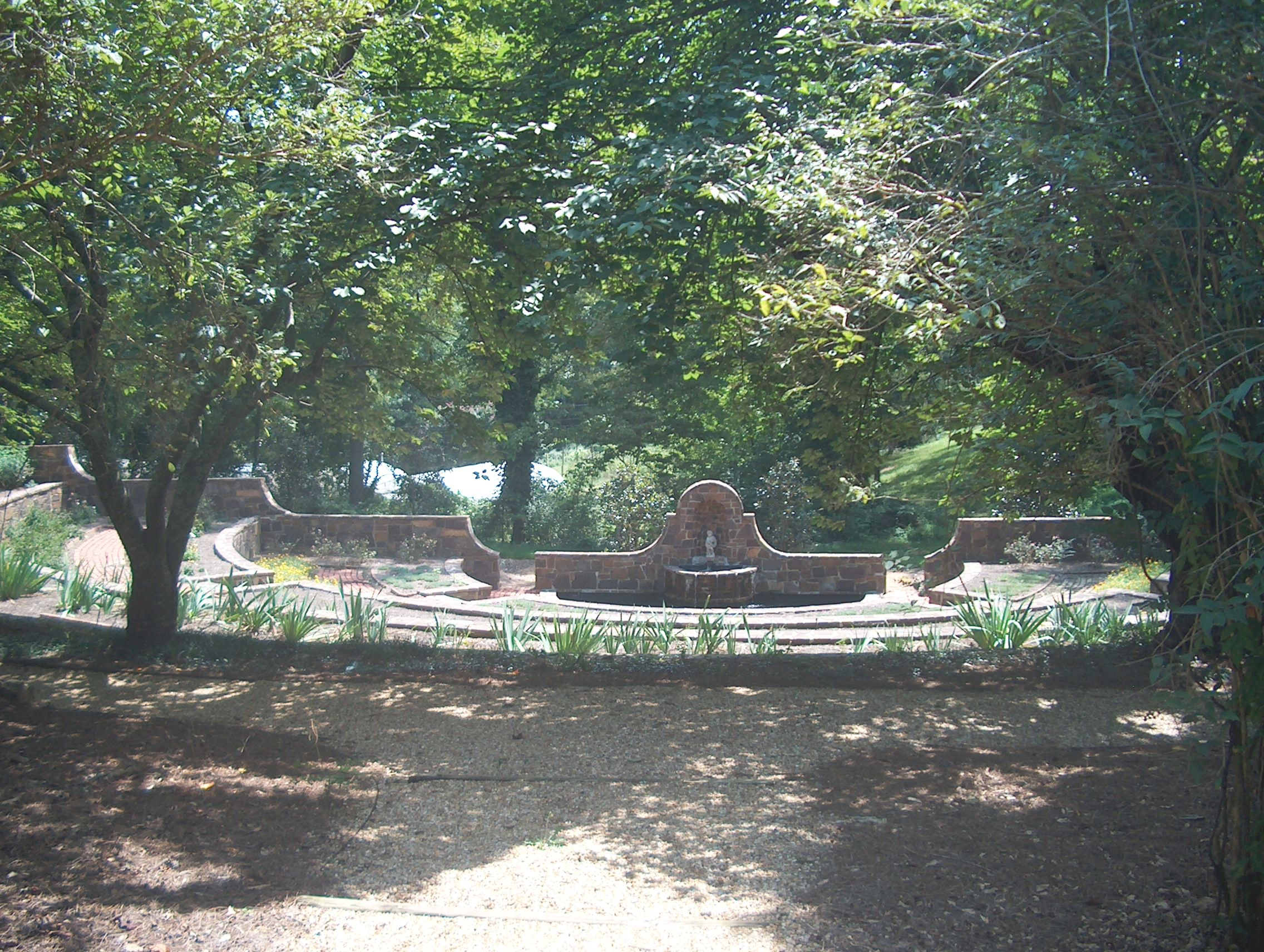 Berry Museum's Sunken Garden